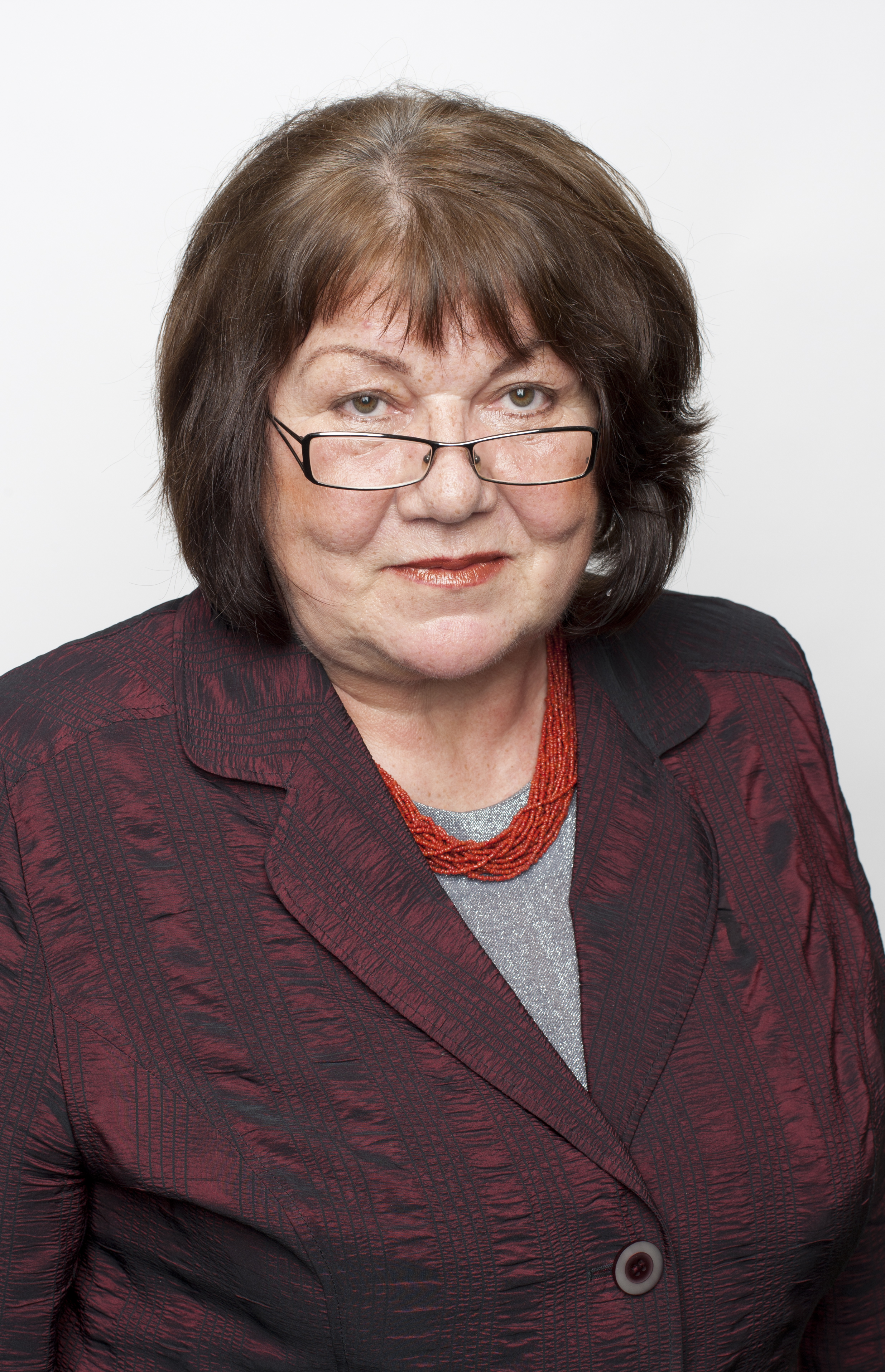 Czech lawyer and politician JUDr. Eliška Wagnerová, Ph.D., from 2012 member of the Senate of the Parliament of the Czech Republic